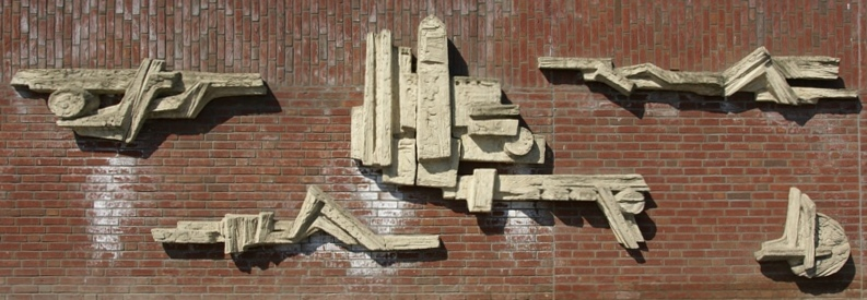 Sculpture "De kweerte vaan de ambtenere" - Maaspromenade, Maastricht, The Netherlands. By Piet Killaars, 1962.